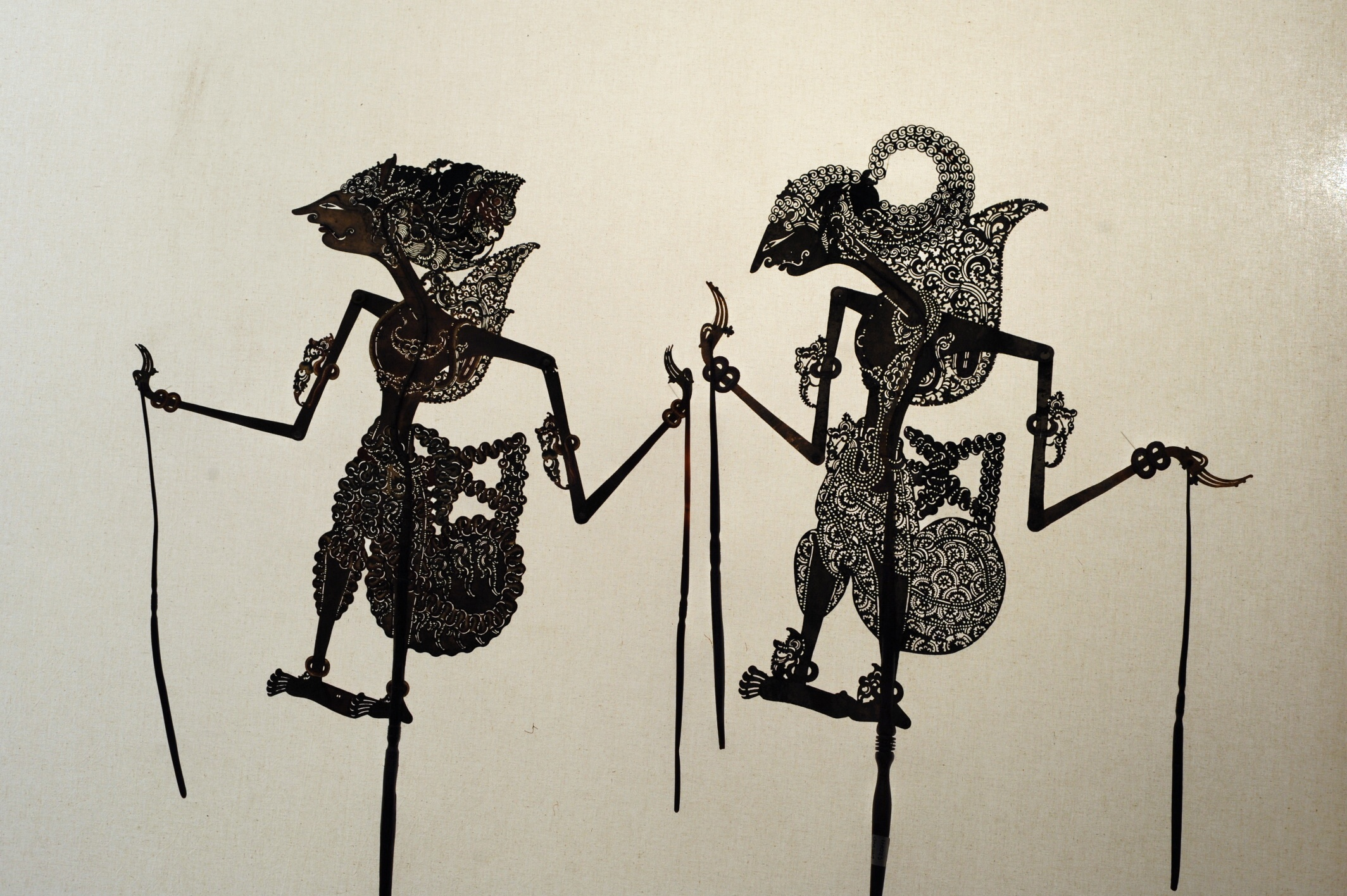 Wayang Kulit